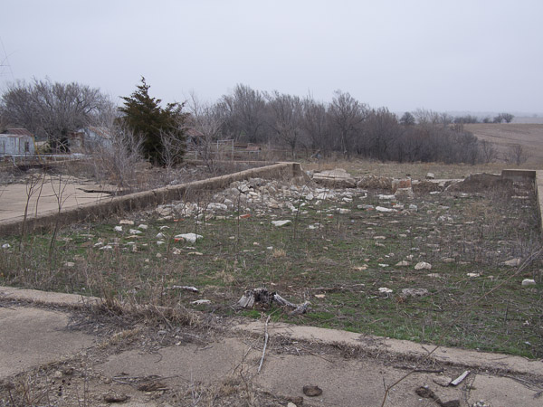 The foundations of old buildings in Denoya, Oklahoma. Also known as Whizbang, Oklahoma.